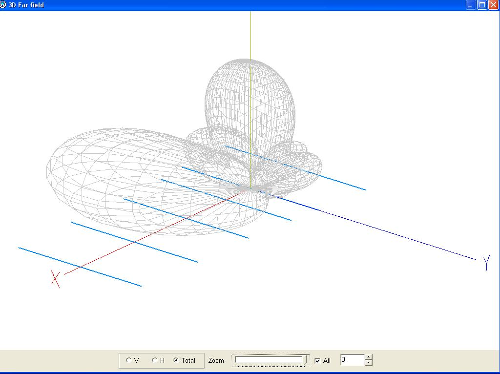 Three-dimensional diagram far field radiation pattern of a Yagi antenna for the ham radio 10 meter band, modelled by MMANA MMANA-GAL 10m-Diagram Yagi of irradiation far field 3D- Dimitri Omen, F4DYT MMANA-GAL Yagi 10m-Officers' Club of Revolutionary Armed Forces field diagram 3D- Dimitri Omen, F4DYT MMANA-GAL Yagi 10m-Champ lointain 3D- Dimitri Omen, F4DYT